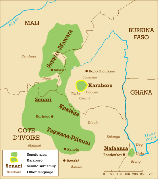 Map showing the location of the Karaboro languages.